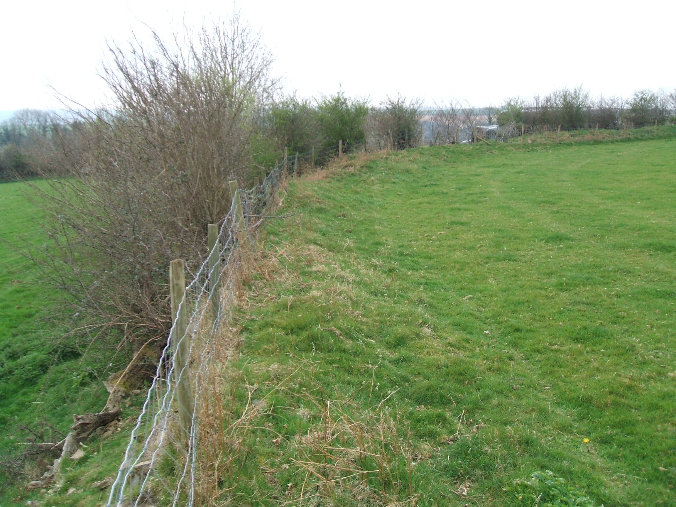 Eastern rampart of Castle Close earthwork.